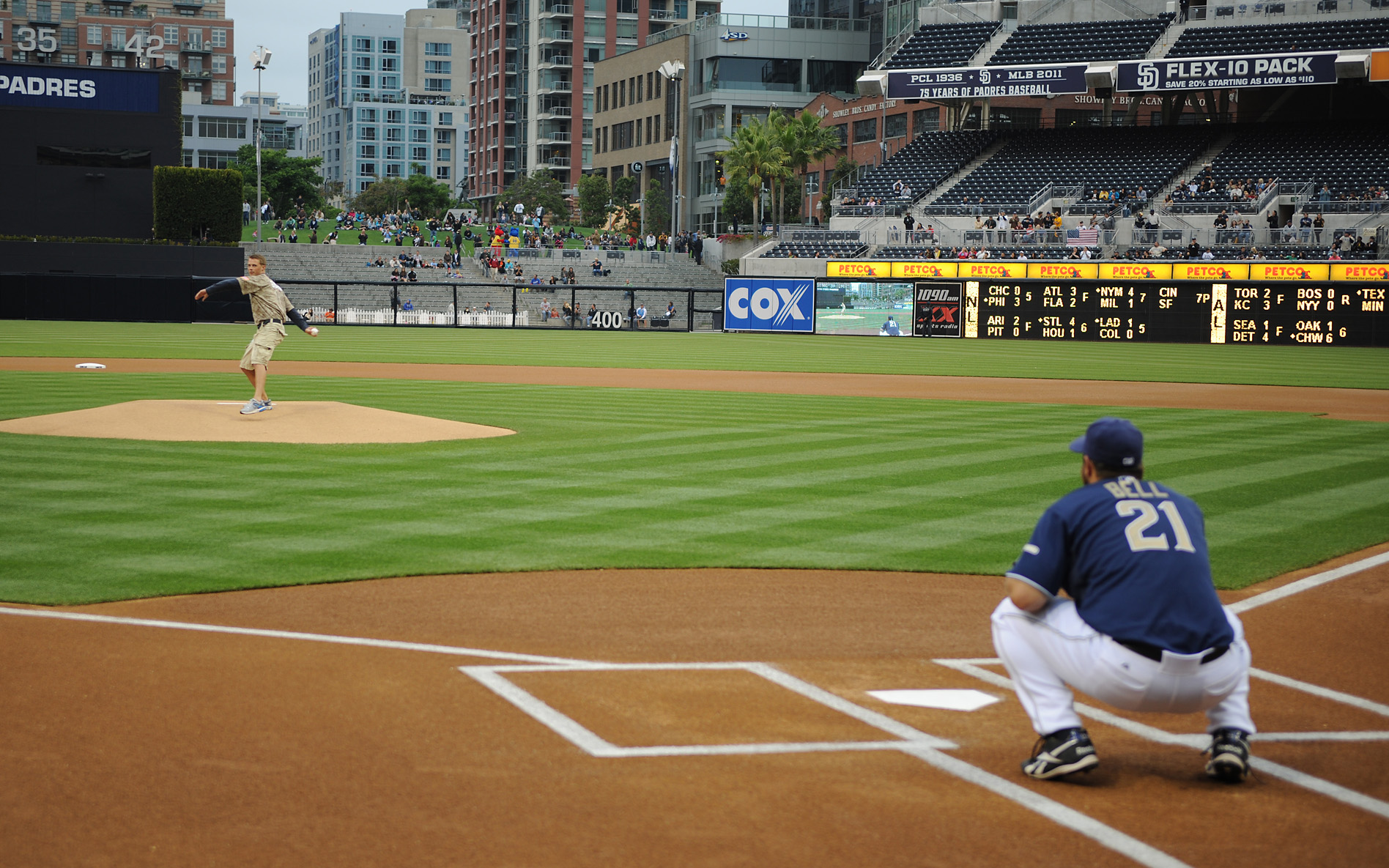 SAN DIEGO (June 9, 2011) Hospital Corpsman 3rd Class Peter Gould, a Silver Star medal recipient, throws out the ceremonial first pitch as part of the Padres'USO Night' game. Gould was hit with shrapnel in the neck and face and loss part of his hearing while trying to save other service members on a mission in Afghanistan during Operation Enduring Freedom. (U.S. Navy photo by Mass Communication Specialist 2nd Class Chad A. Bascom/Released)